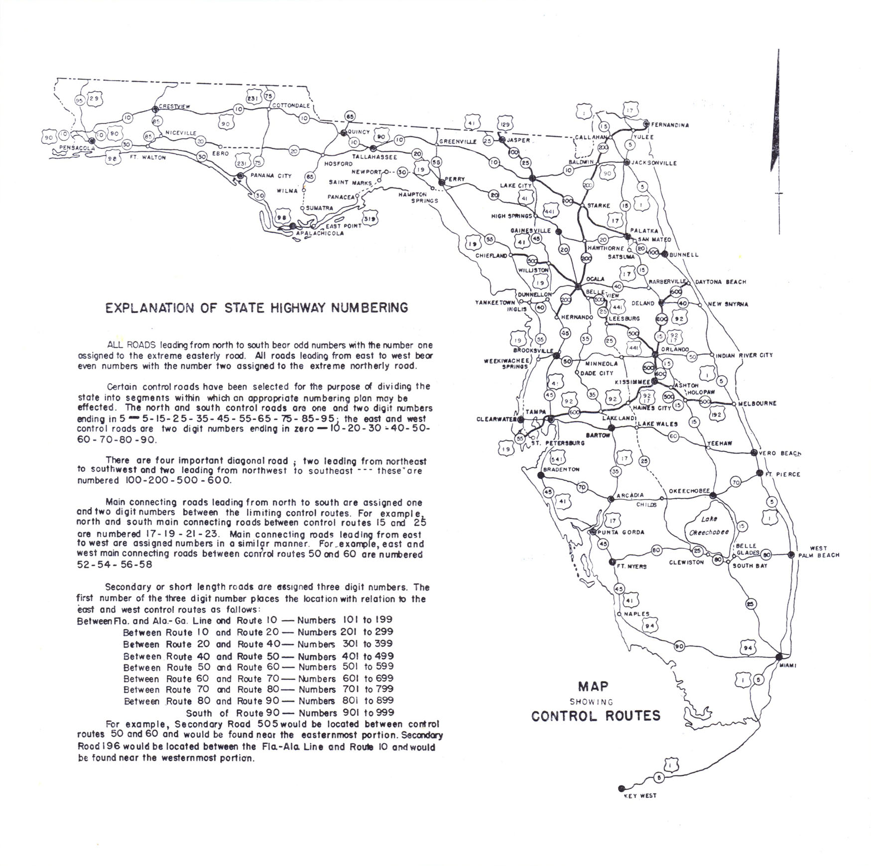 This is a map copyrighted by the State Road Department of Florida in 1946, showing the new numbering system. It comes from a larger map on Historical Maps of Florida at I searched Copyright renewal records at and the SRD did not renew any copyrights. Therefore this map is now in the public domain. Note: there is at least one typo; 20 between Gainesville and Ocala should read 25.